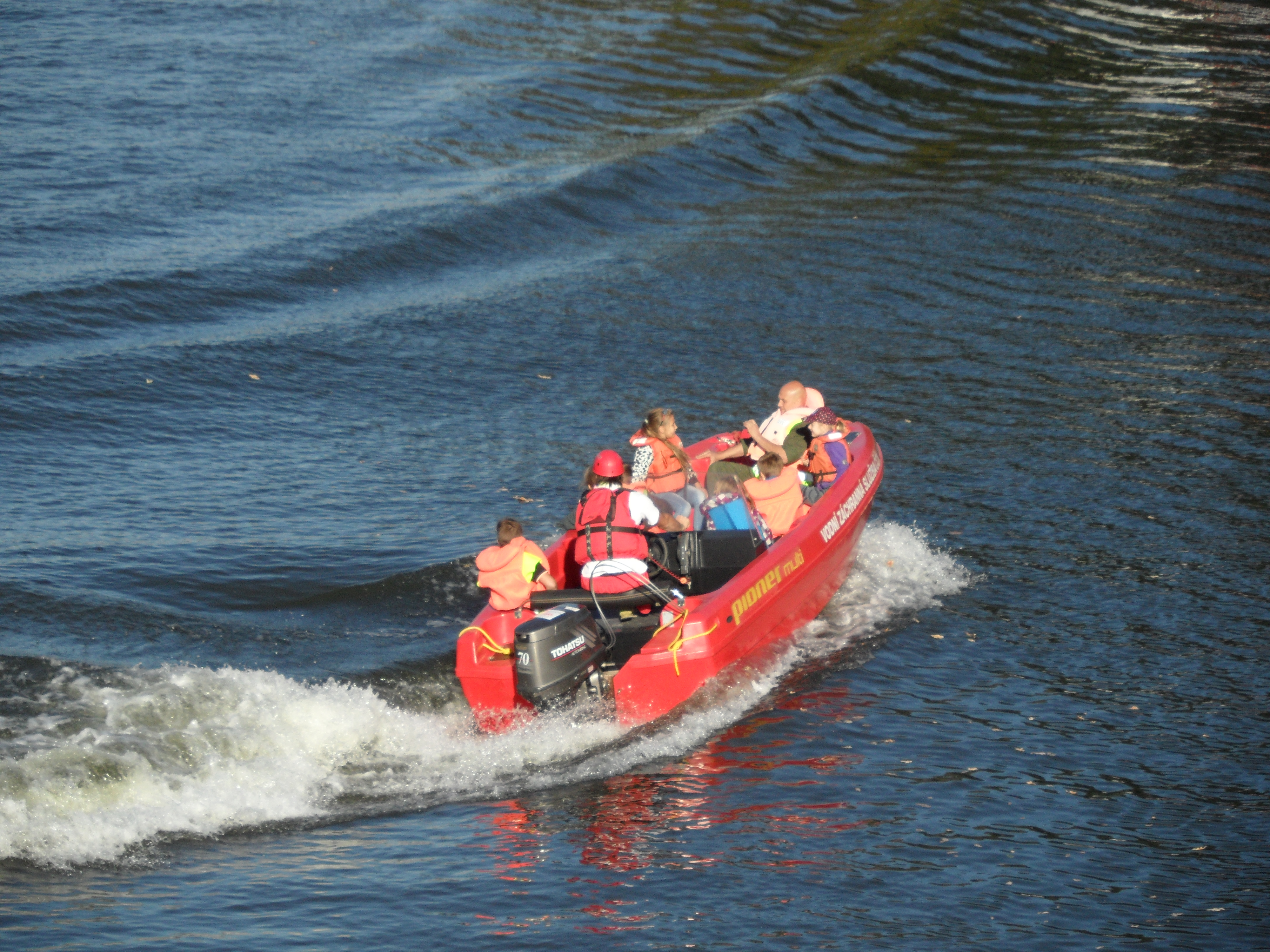 Retro City. Friday: Dynamic Presentations. A11. Resque Squad on Labe (Elbe). Pardubice, Pardubice District, the Czech Republic.